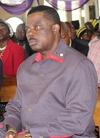 A picture of the Governor of Anambra State, Chief Willie Obiano at the funeral of Bishop Okafor.